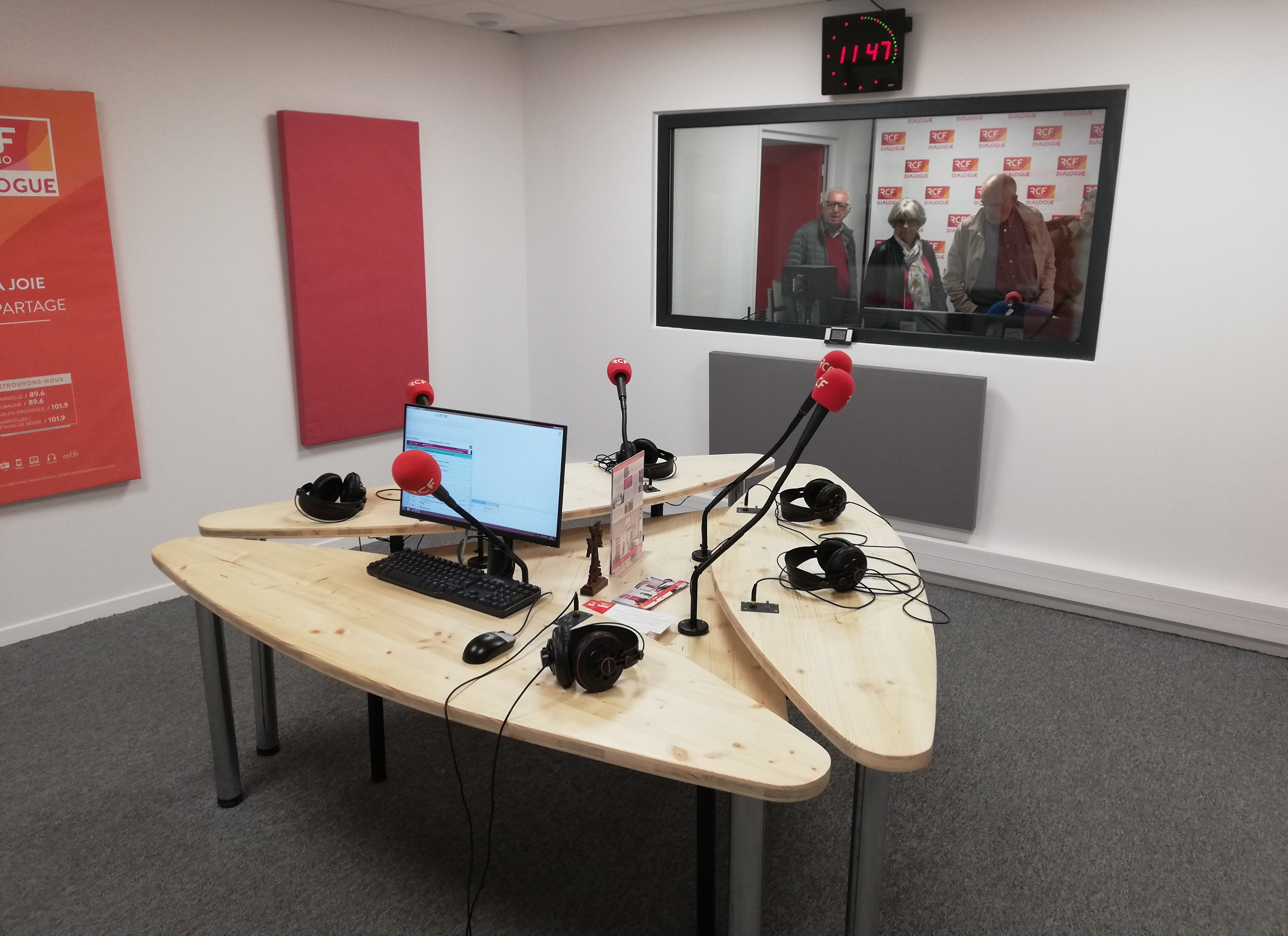 Studio number 1 of the radio station RFC Dialogue inaugurated en October 12, 2019